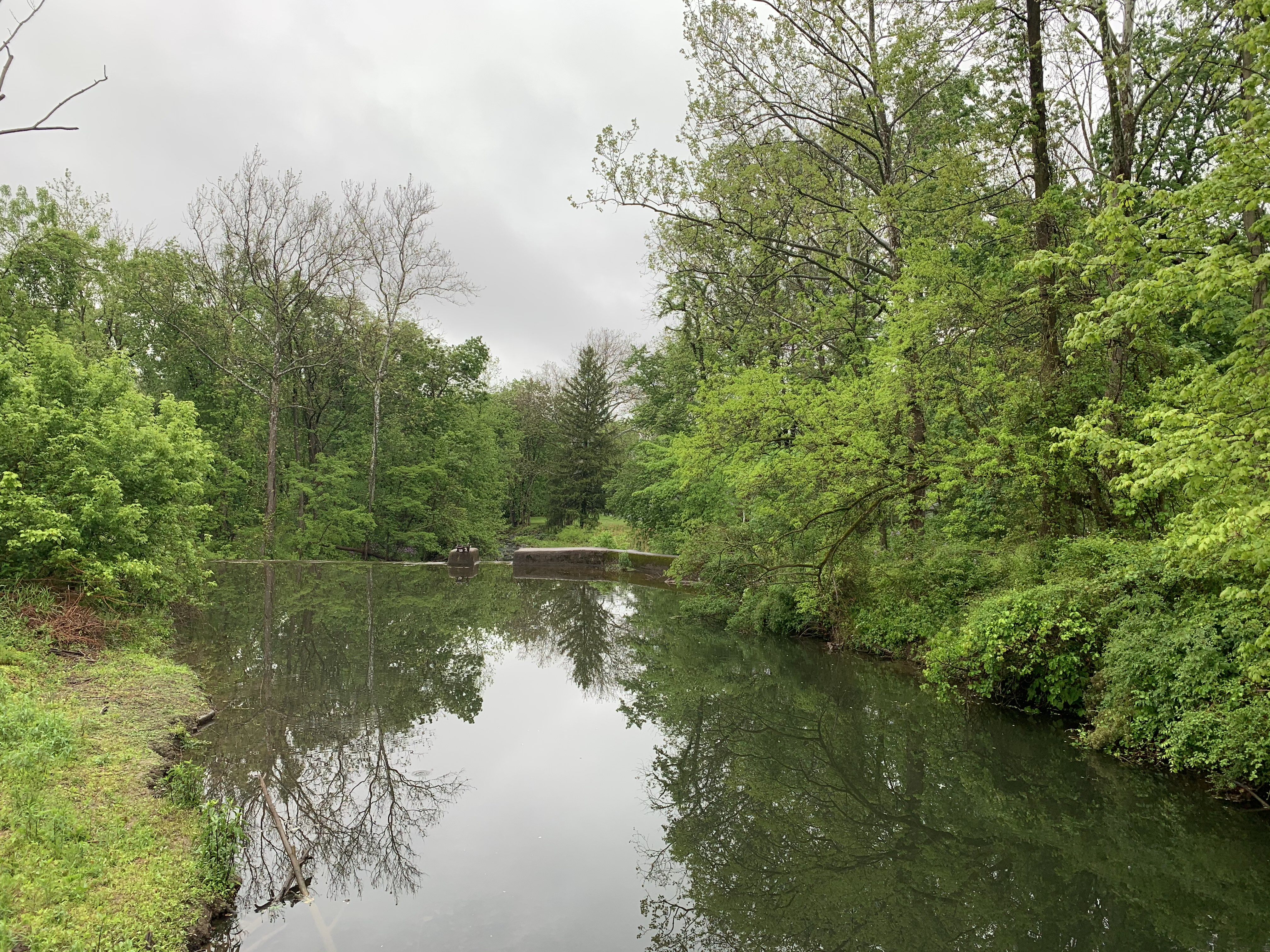 The Buck Creek (Delaware River) approaching a dam on the river just after the confluence with the Brock Creek (Buck Creek).